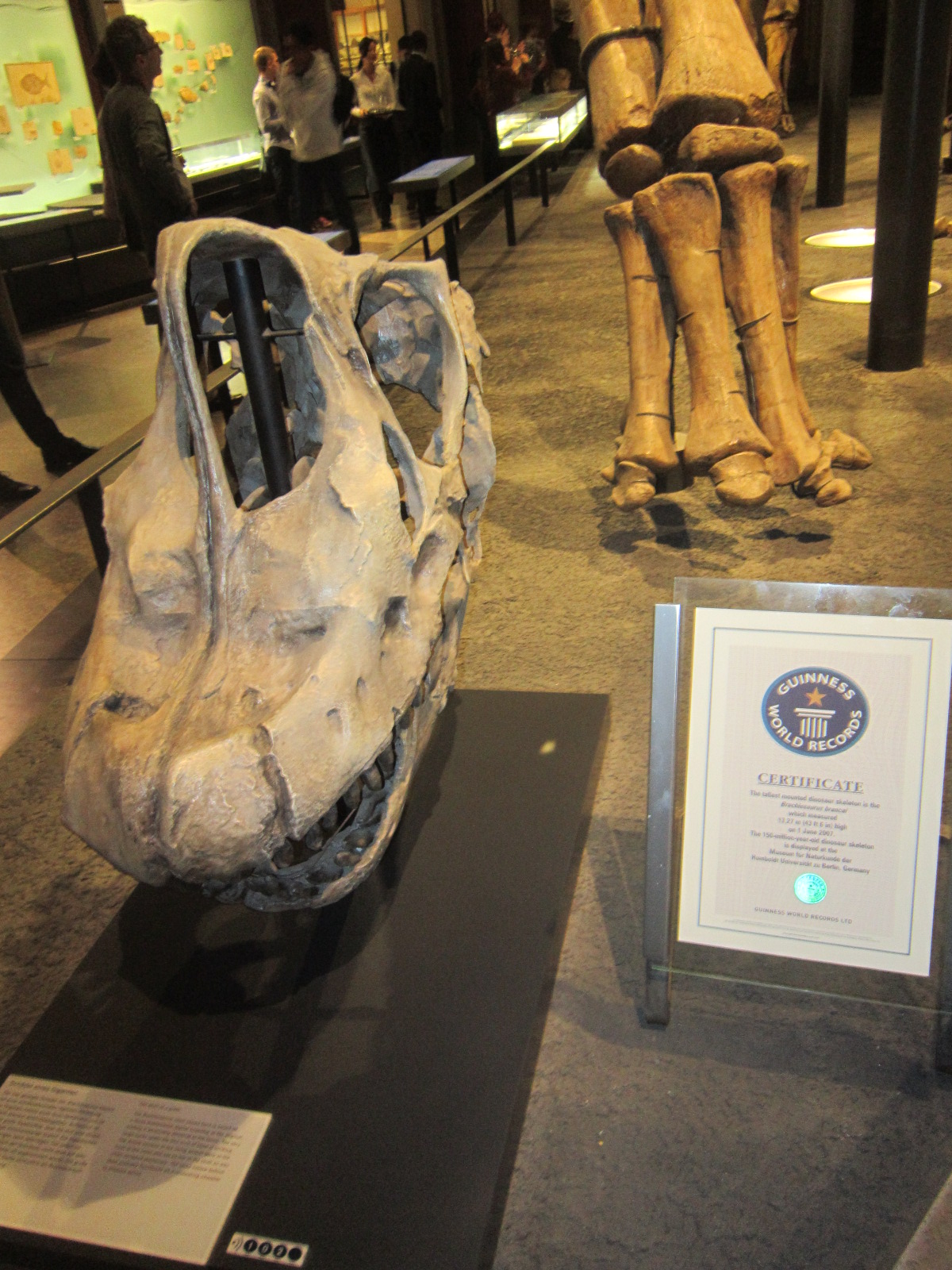 Skull of Brachiosaurus brancal in Berlin